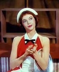 Cropped screenshot of Leslie Caron from the trailer for the film Lili (1953).